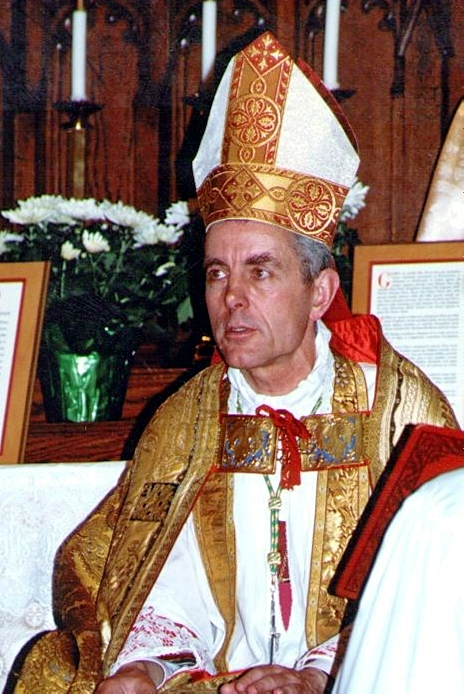 Bishop Richard Williamson of the Society of Pius X.